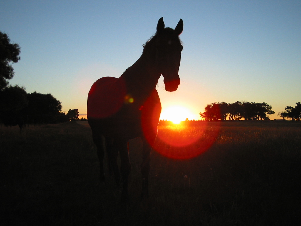 A domestic horse (Equus caballus) stands against a magnificent sunrise at Gisborne South, Victoria, Australia